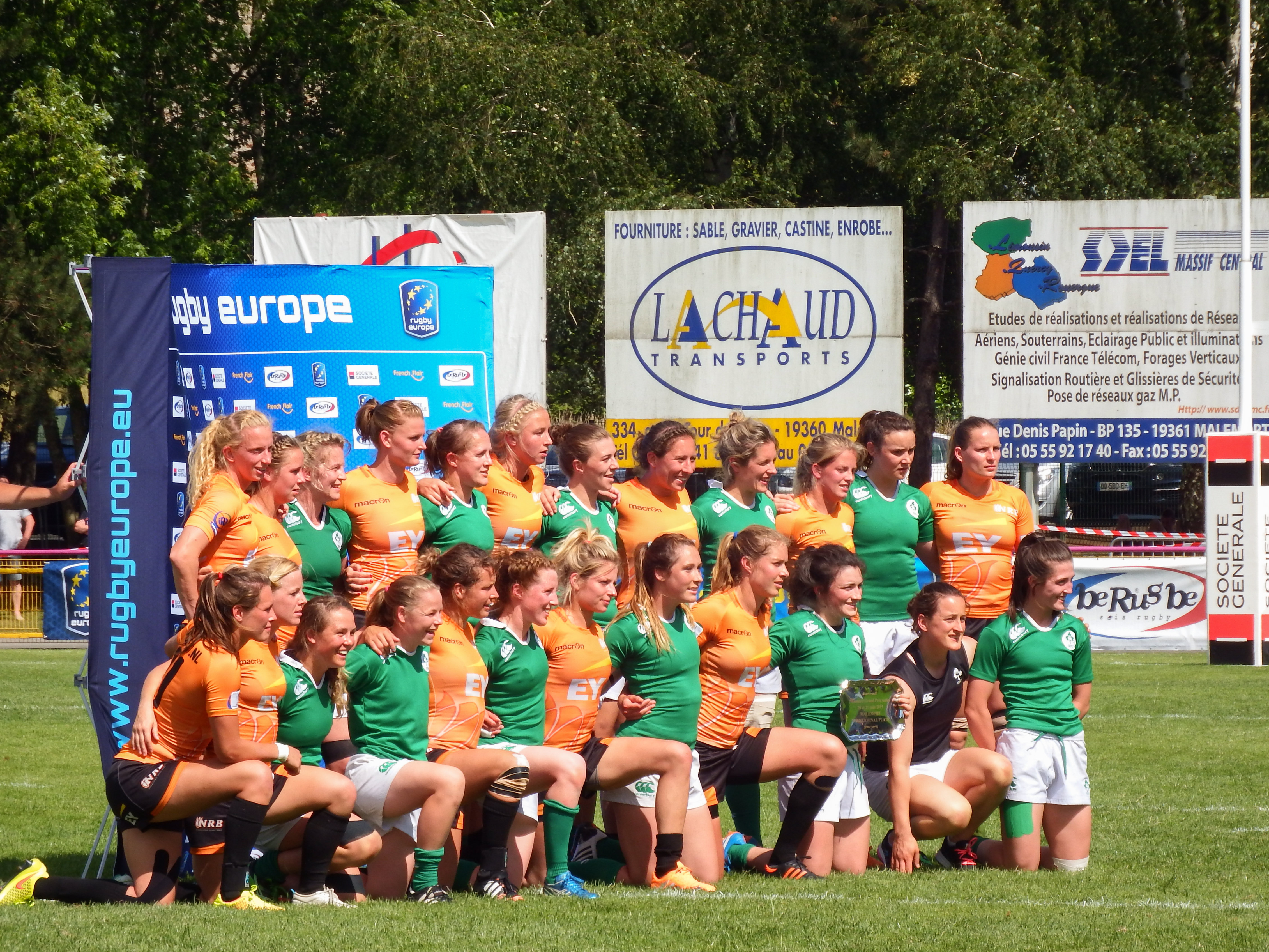 Malemort Sevens 2015 — 21 June 2015, stade Raymond-Faucher. Match between: Ireland — Netherlands